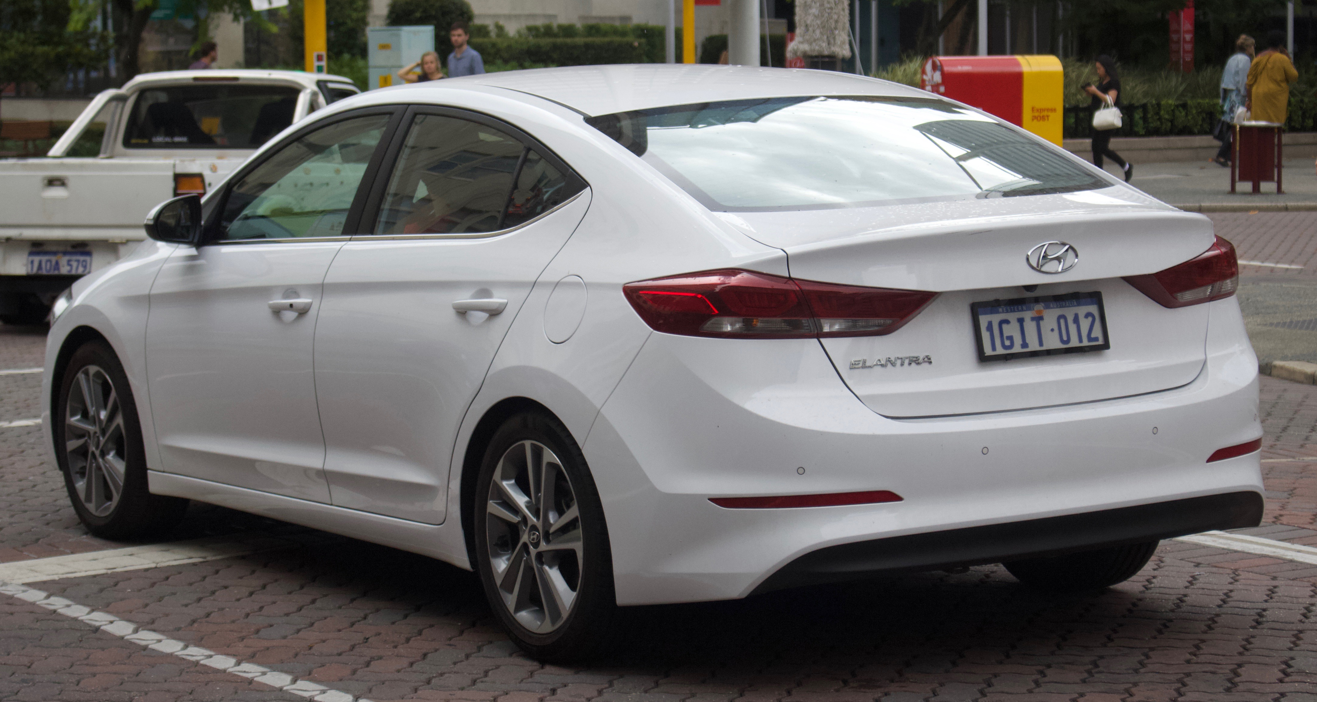 2017 Hyundai Elantra (AD) Elite sedan. Photographed in Perth, Western Australia, Australia.